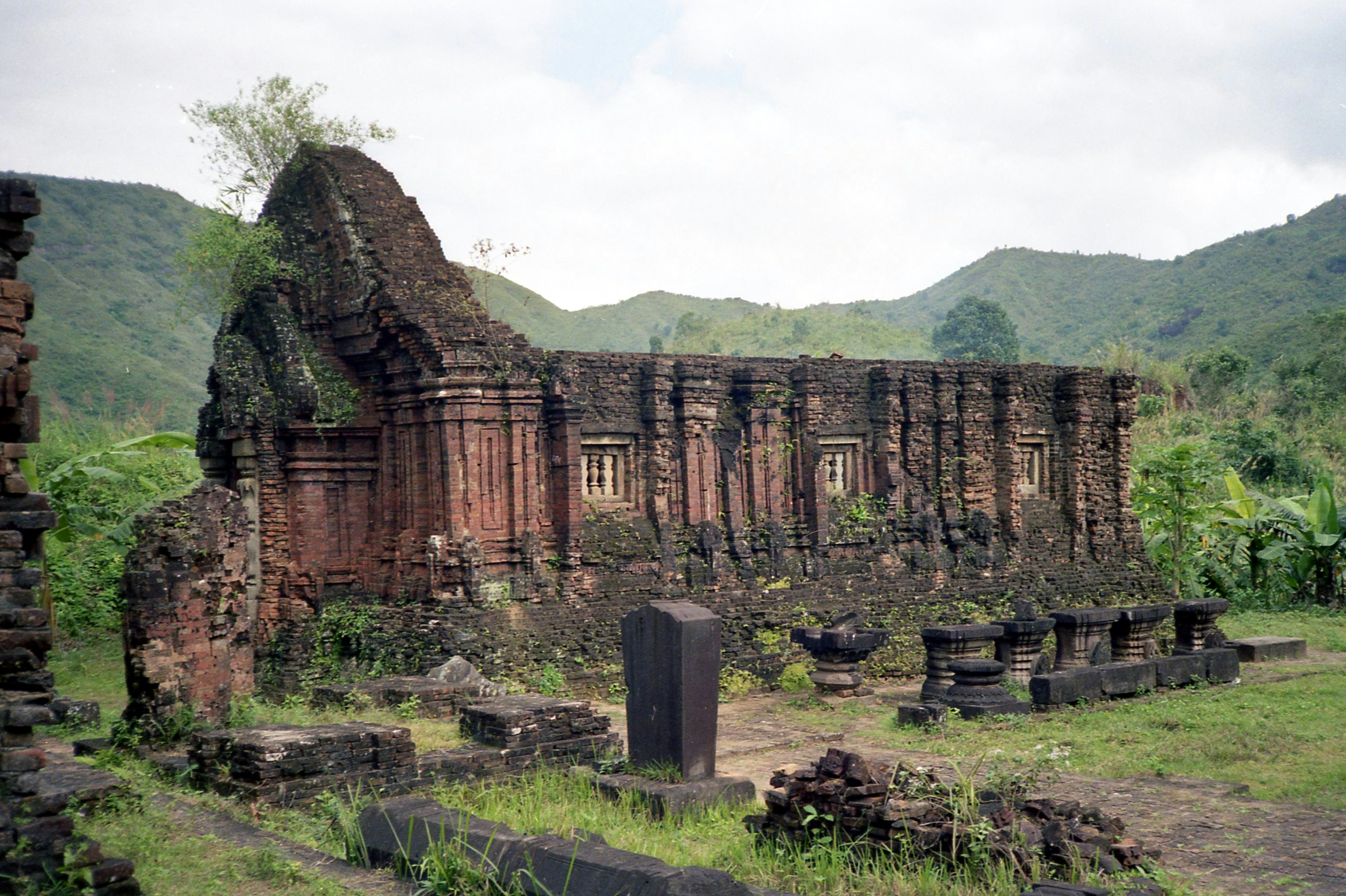 My Son temple, village of Dui Phu, Vietnam